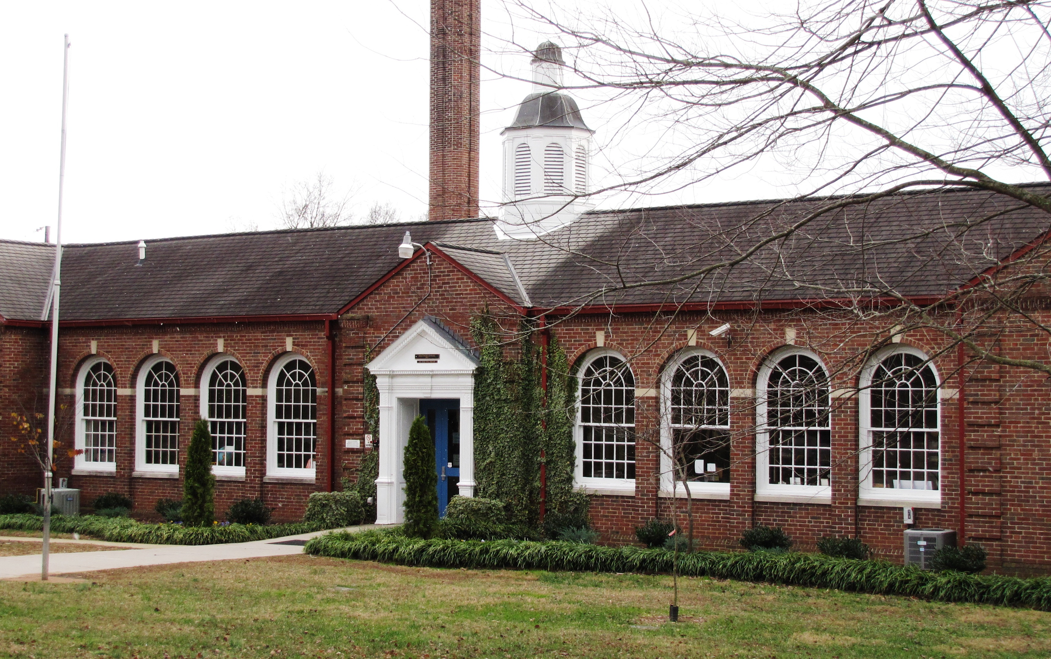 Sequoyah School, located in the Sequoyah Hills neighborhood of Knoxville, Tennessee, USA. This school was originally built in 1929 and designed by noted Knoxville architect Charles Barber (1887–1962).